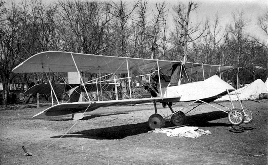 Title: [Voisin scout biplane tethered to the ground] cropped